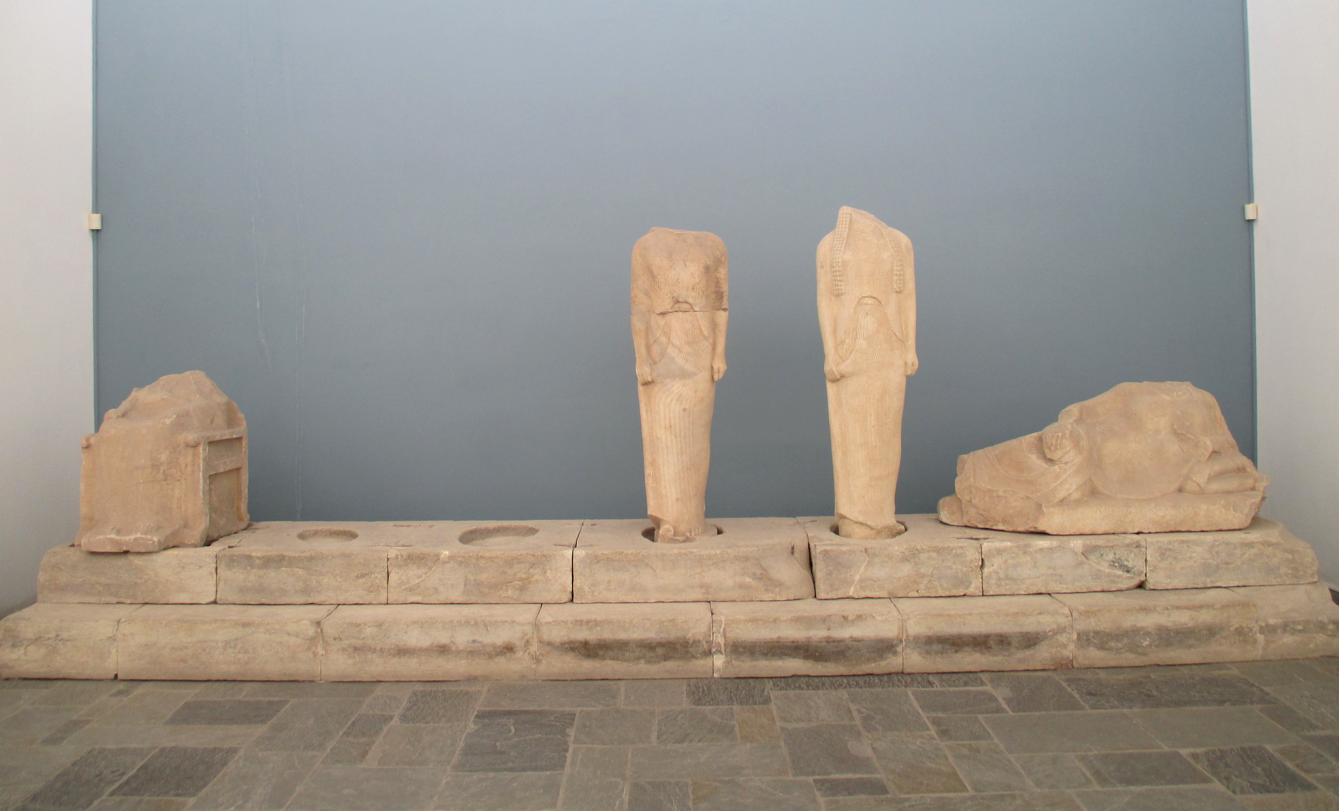 Geneleos group from Heraion of Samos. Archaeological Museum of Samos, Greece.